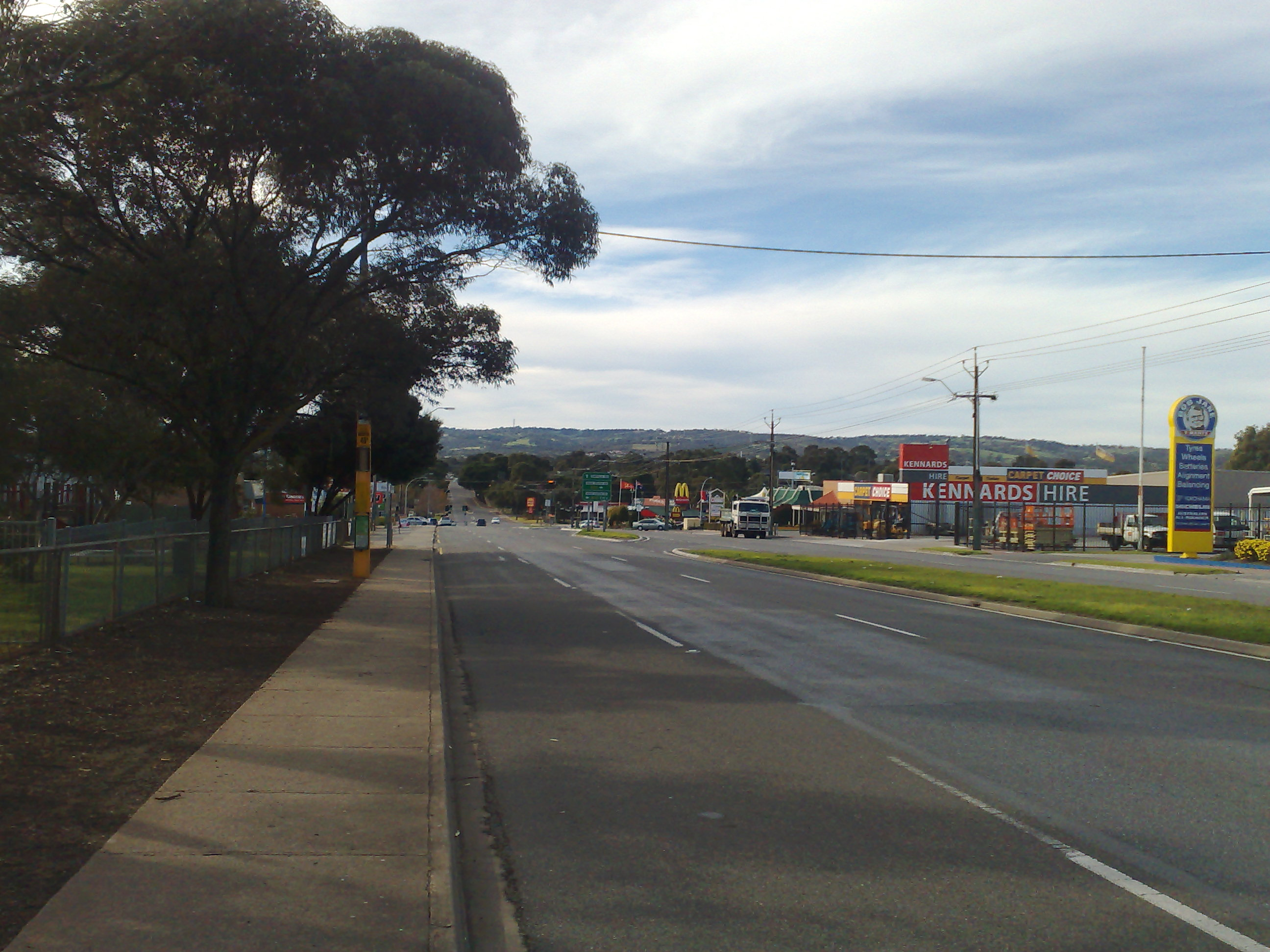 Sherriffs Road, looking east, circa 2007.